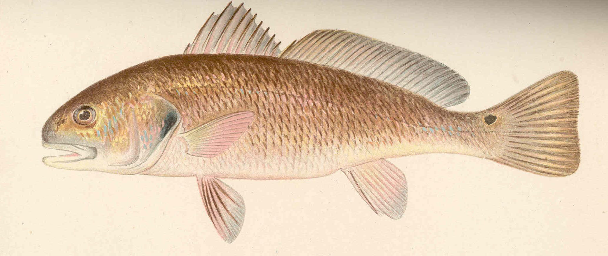 Channel Bass (Sciaenops ocellatus (Linnaeus)) Subject: Channel bass Tag: Fish